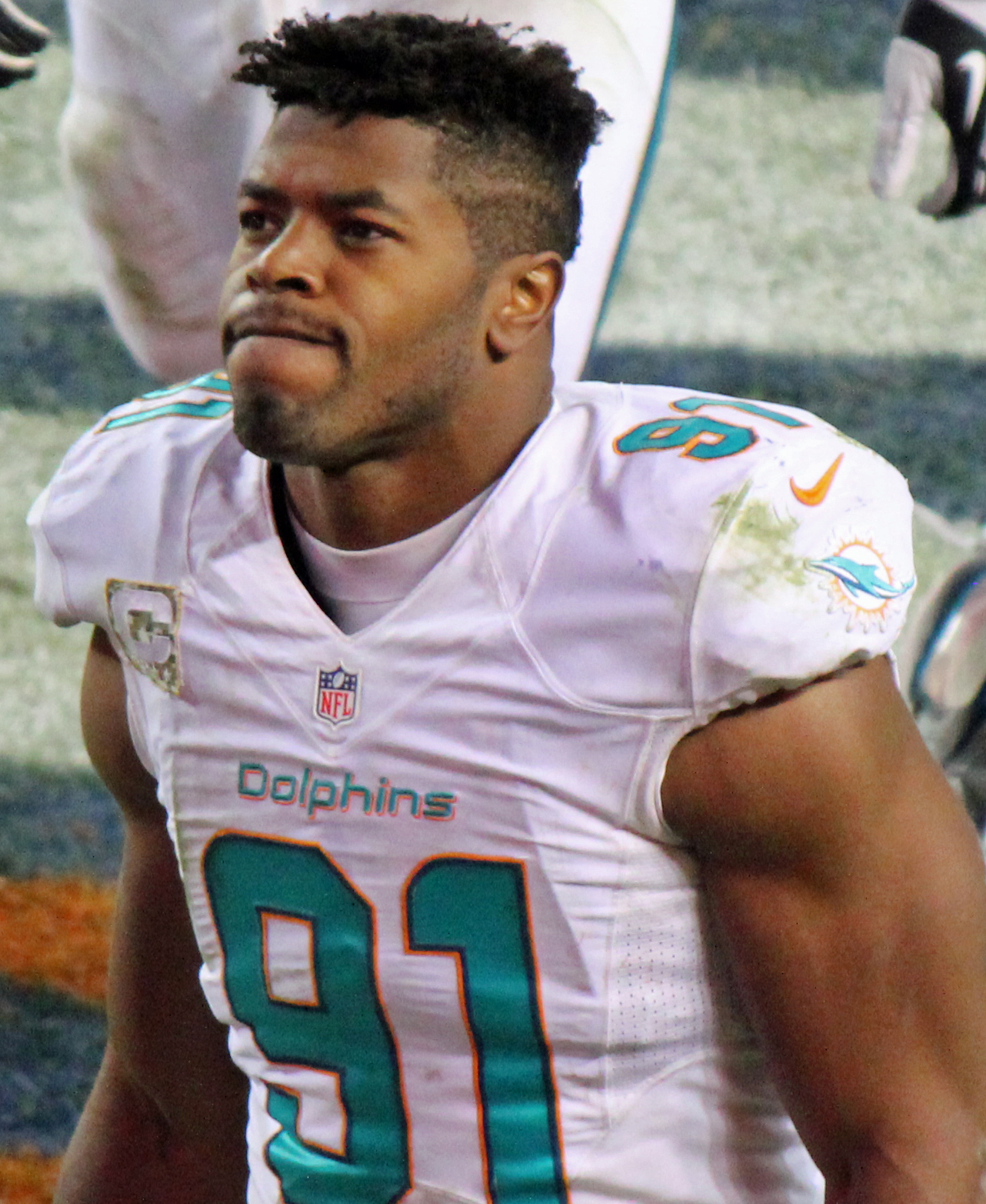 Cameron Wake, a player on the National Football League.